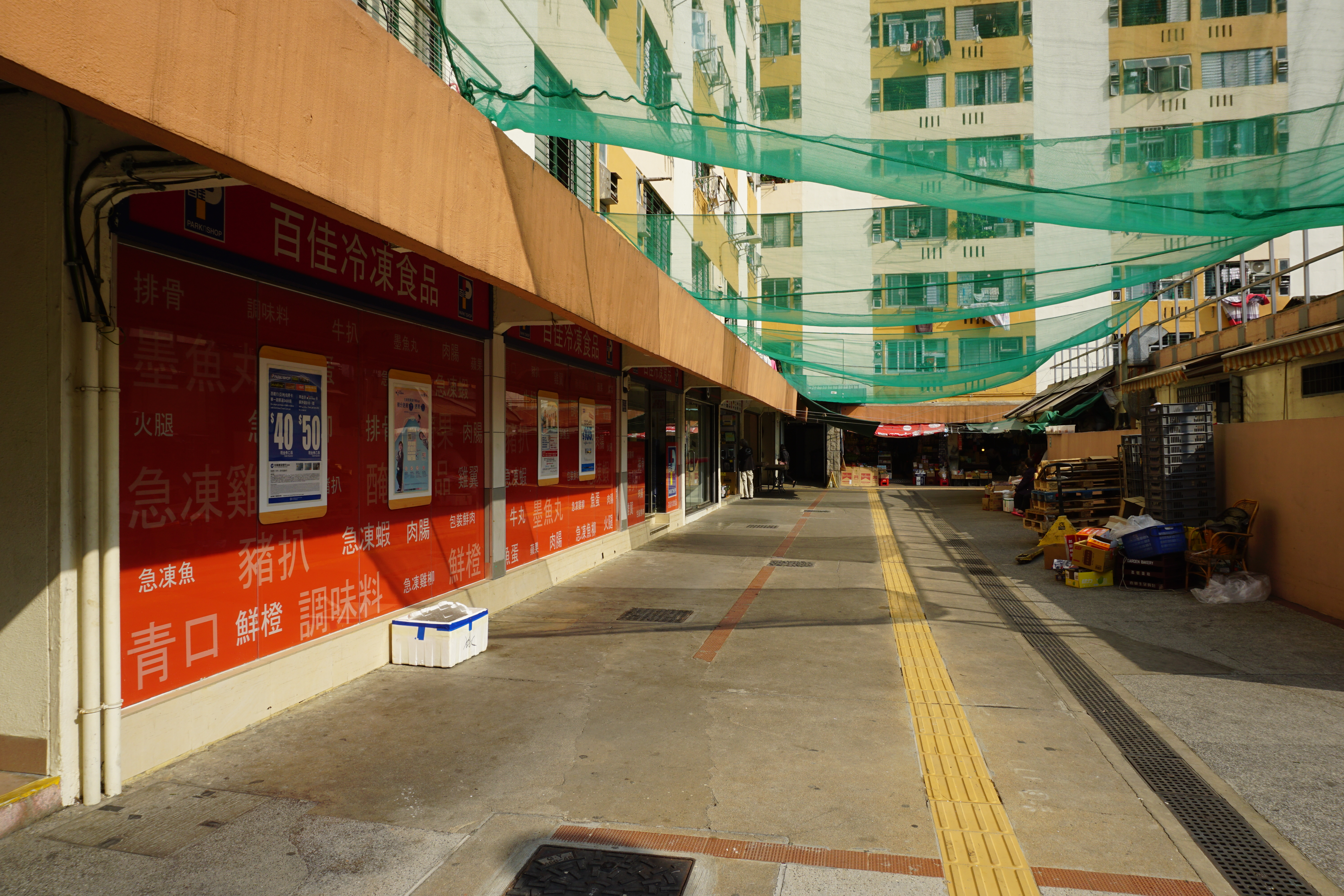 Ming King House in Lai King, Hong Kong.